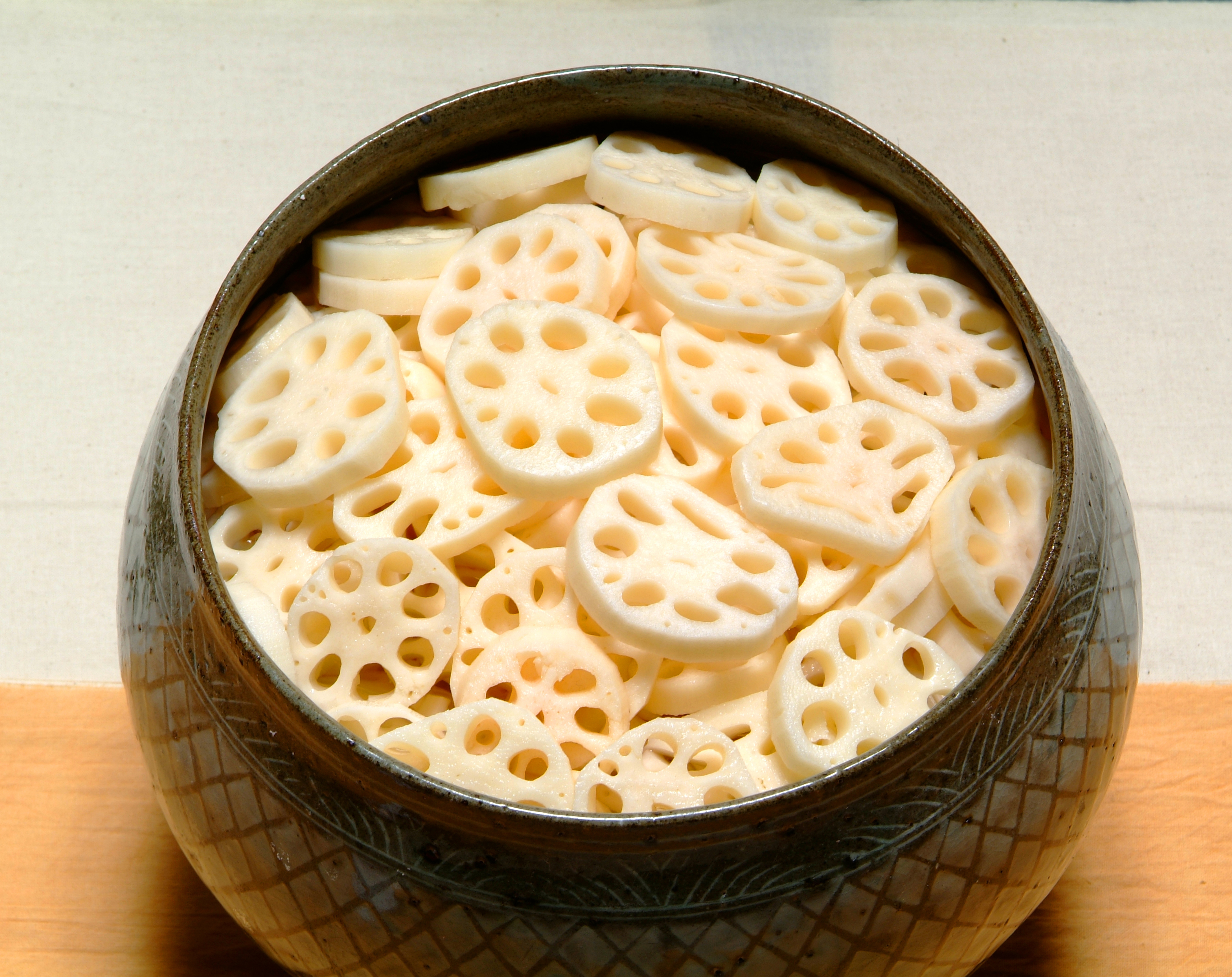 Yeongeun